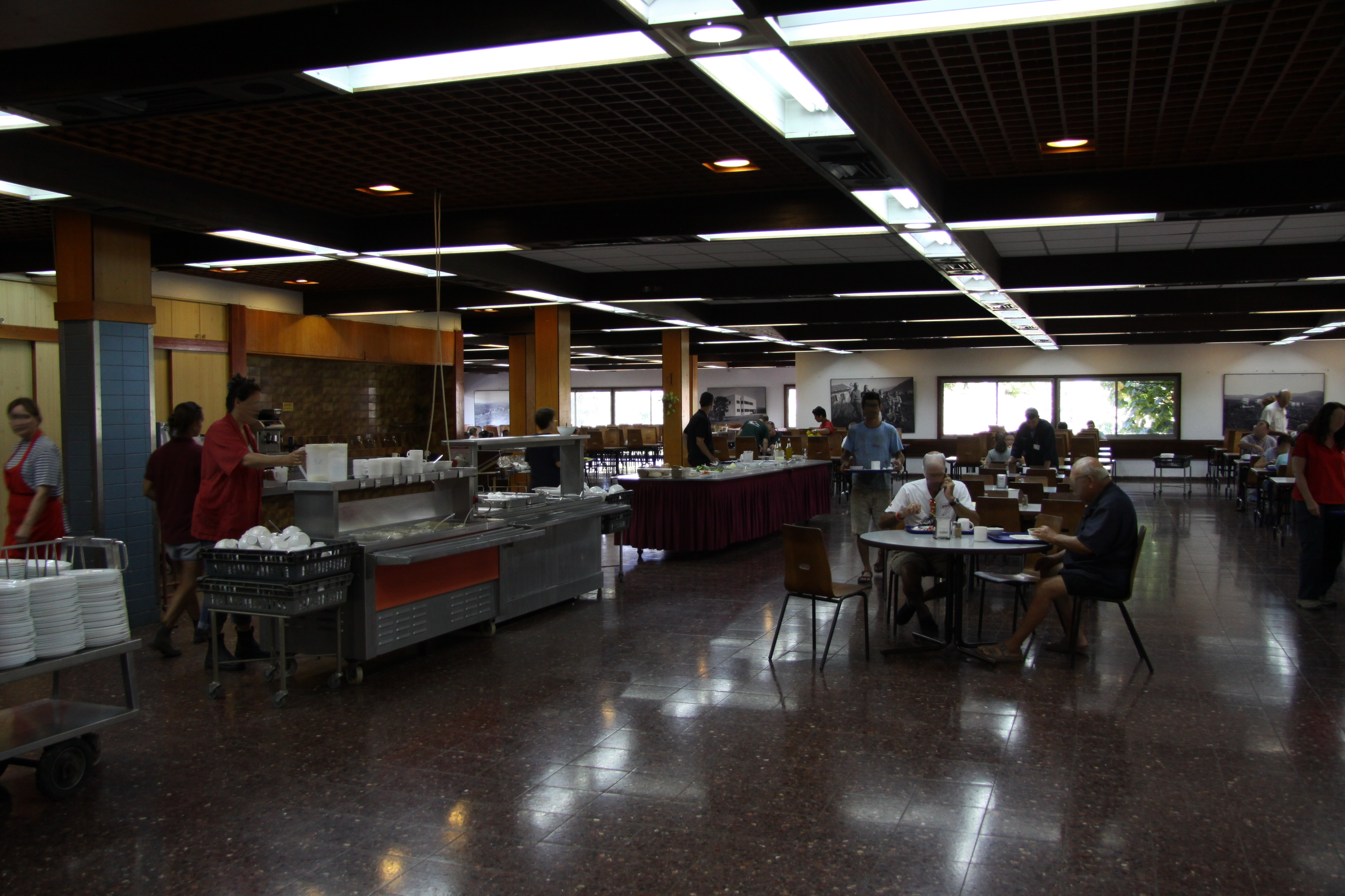 Dining room in Kibuttz Geva in Israel